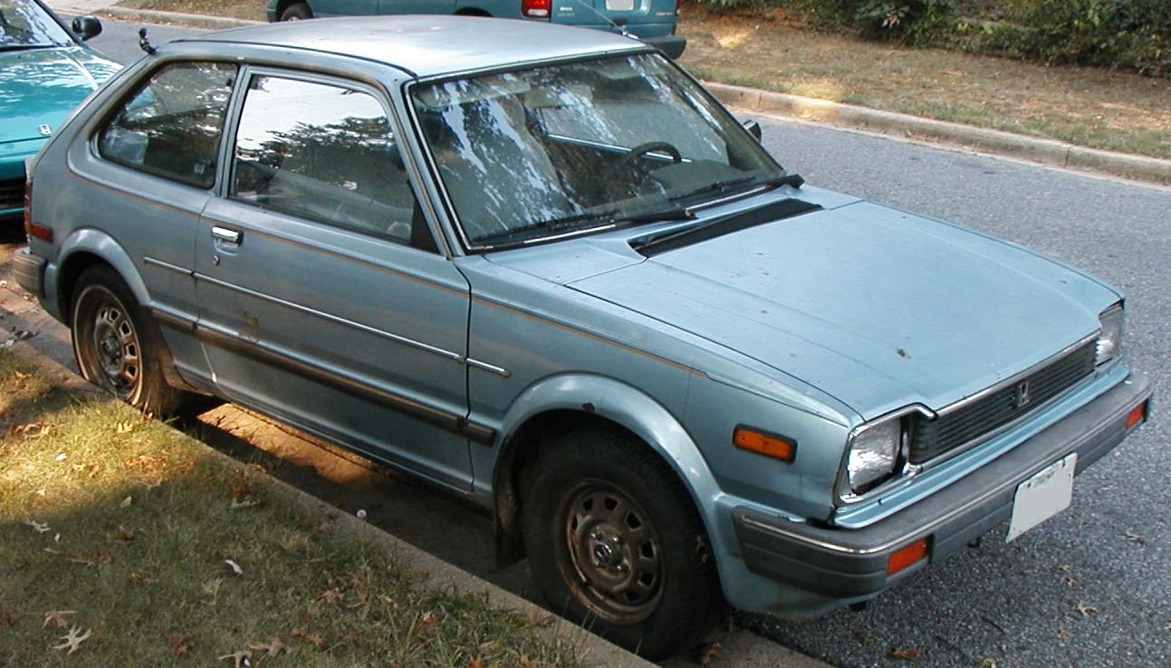 1982-1983 Honda Civic hatchback photographed in USA.